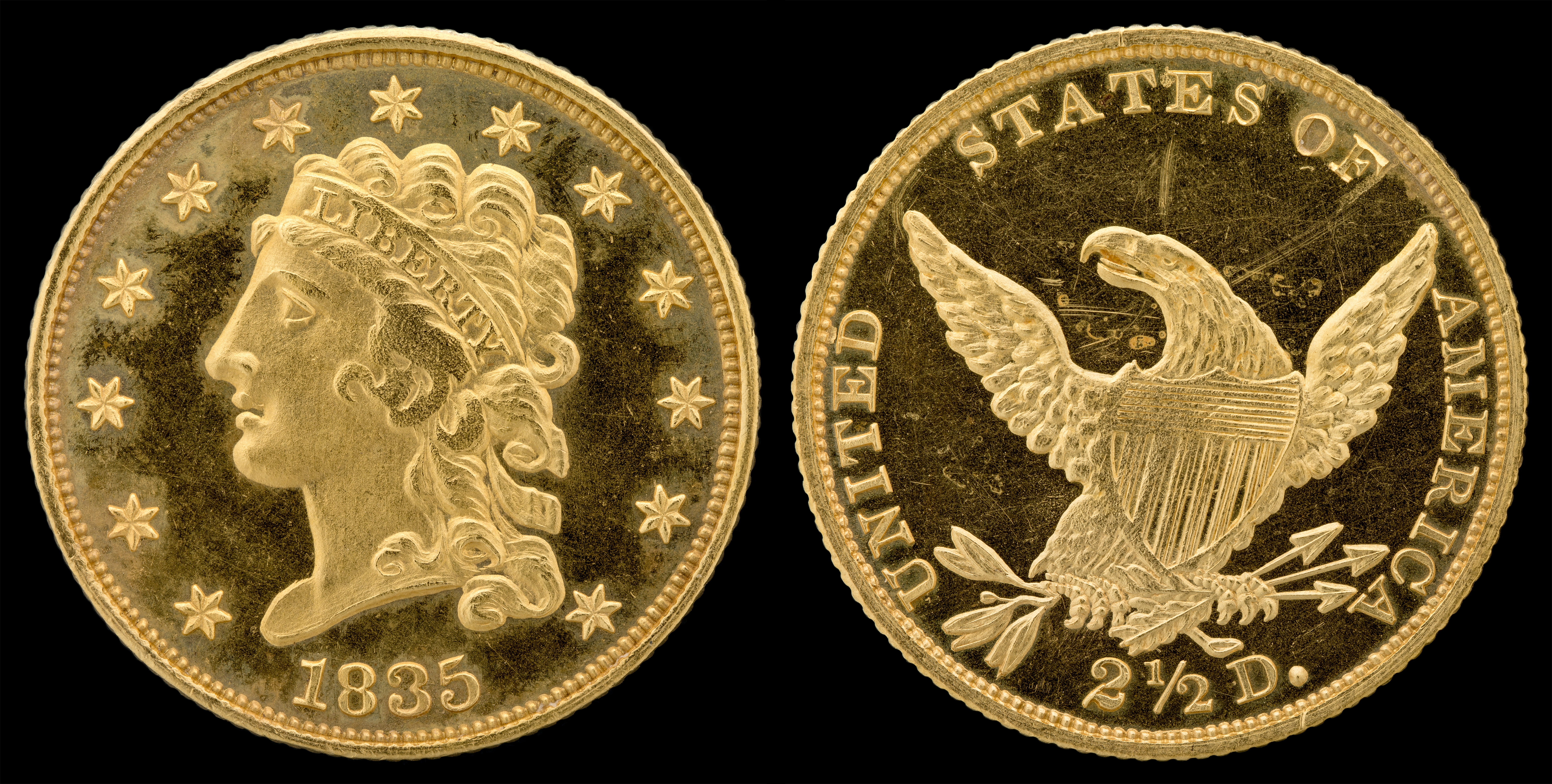 1835 G$2½ Classic Head Gold (fineness 0.8990), 18.2mm, 4.18g, designed by William KneassJN2015-6724-25